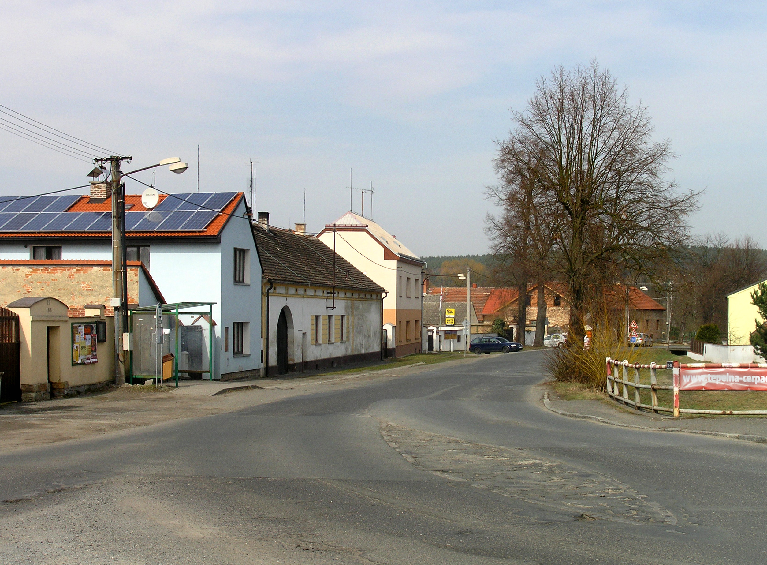 Ledecká street in Záluží, part of Třemošná town, Czech Republic